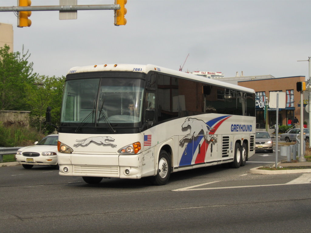 Greyhound Lines #7061 departs Atlantic City